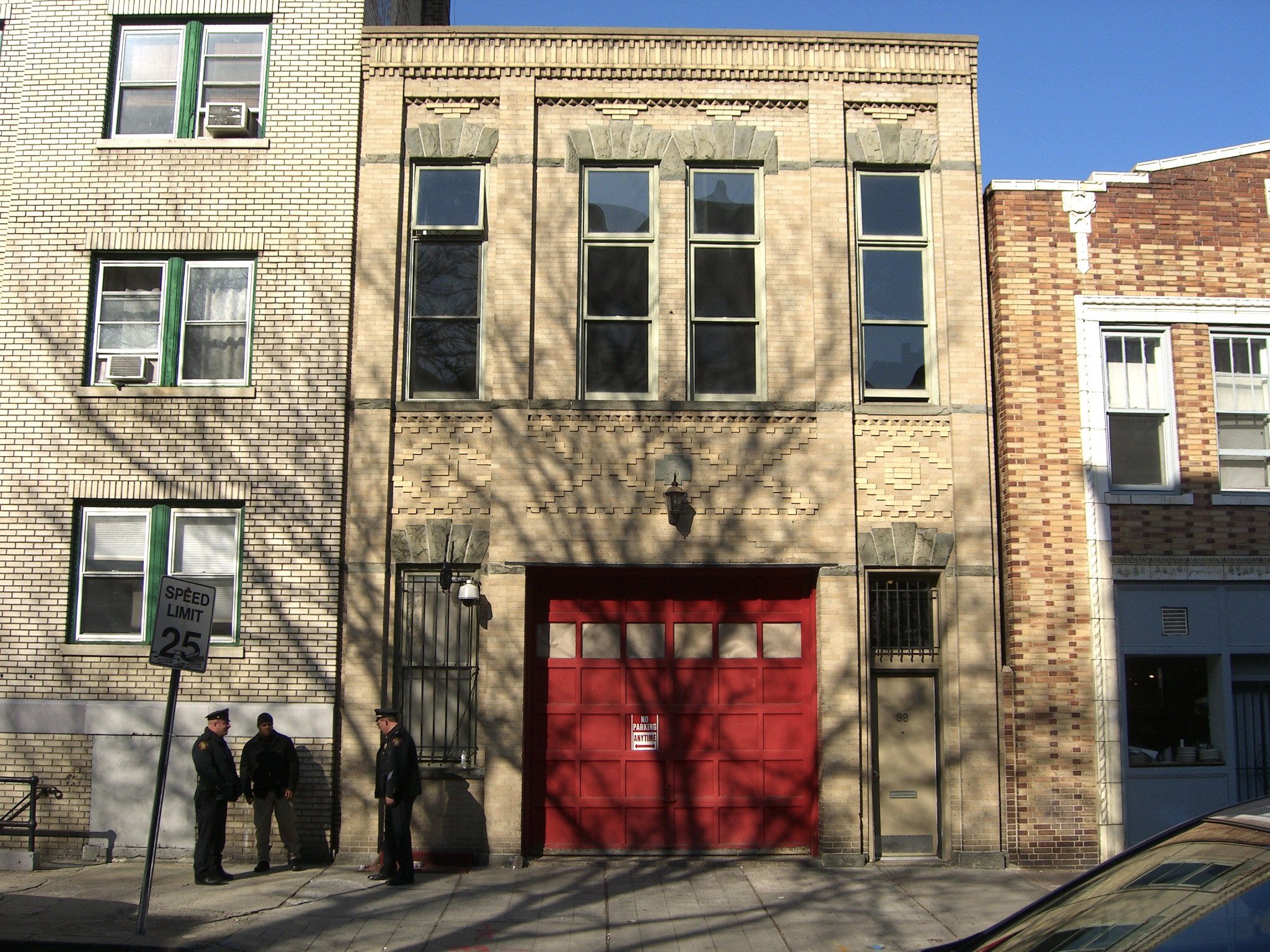 Former firehouse at 38 Mercer Street between Grove Street and Barrow Street in Jersey City, New Jersey. The building serves as the first season residence for the cast of the MTV reality television series Snooki and JWoww vs. The World. In the photo, taken February 28, 2012, three days after stars Nicole "Snooki" Polizzi and Jennifer "JWoww" Farley moved into the residence, are members of the production staff, and a group of Jersey City police officers, whose round-the-clock presence the production was required to pay for in order to receive a filming permit by Jersey City. This photo was created by Luigi Novi. It is not in the public domain, and use of this file outside of the licensing terms is a copyright violation.